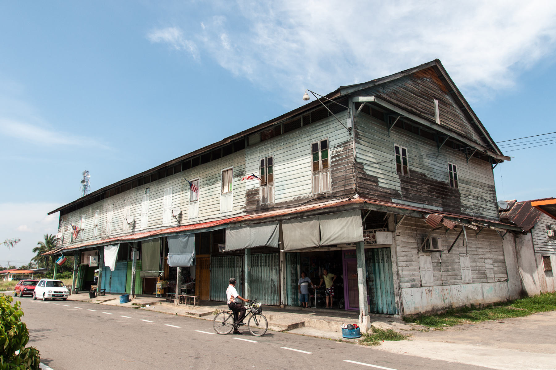 Old Shophouse in Membakut, east of railway, 1950s